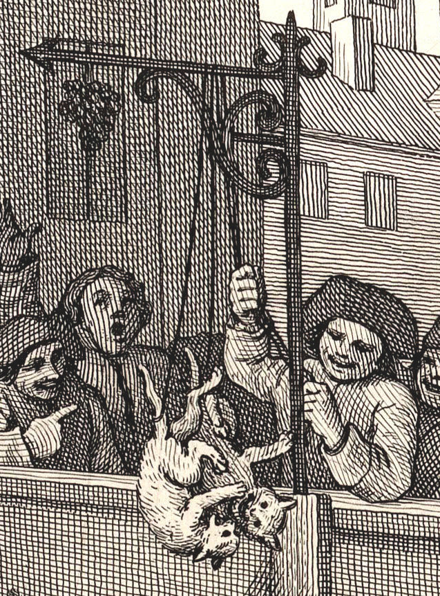 Detail from File:William Hogarth - The First Stage of Cruelty- Children Torturing Animals - Google Art Project.jpg showing two fighting cats suspended from a rope tied to their tails